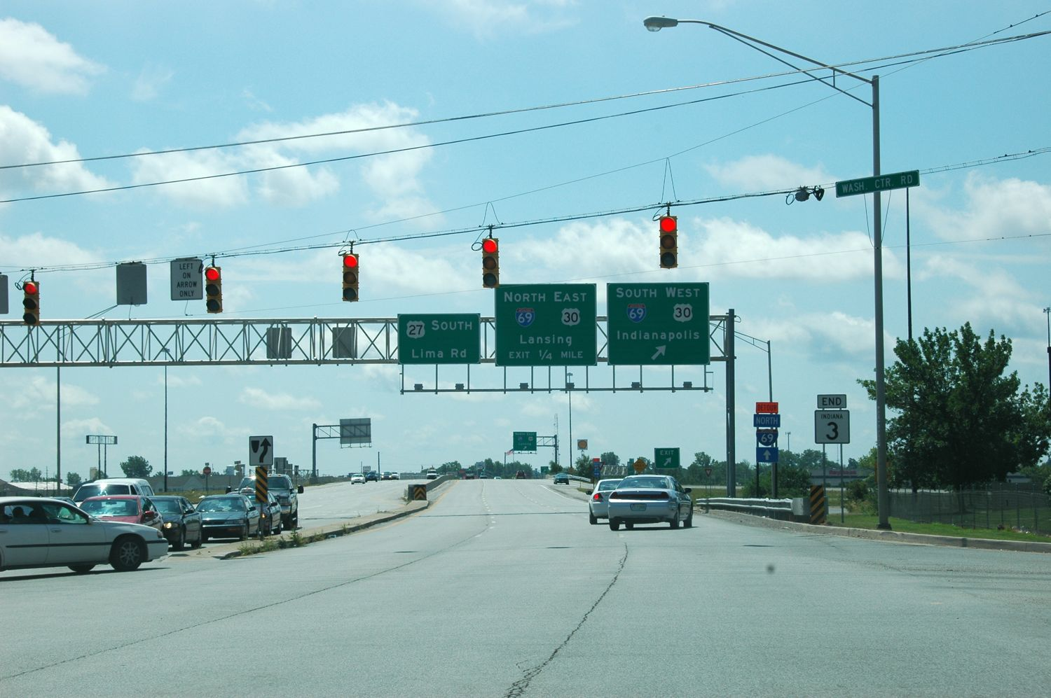 Looking south at the northern terminus of U.S. Route 27 in Fort Wayne, Indiana. This is also the southern terminus of Indiana State Road 3.